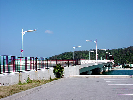 Shioya Bridge